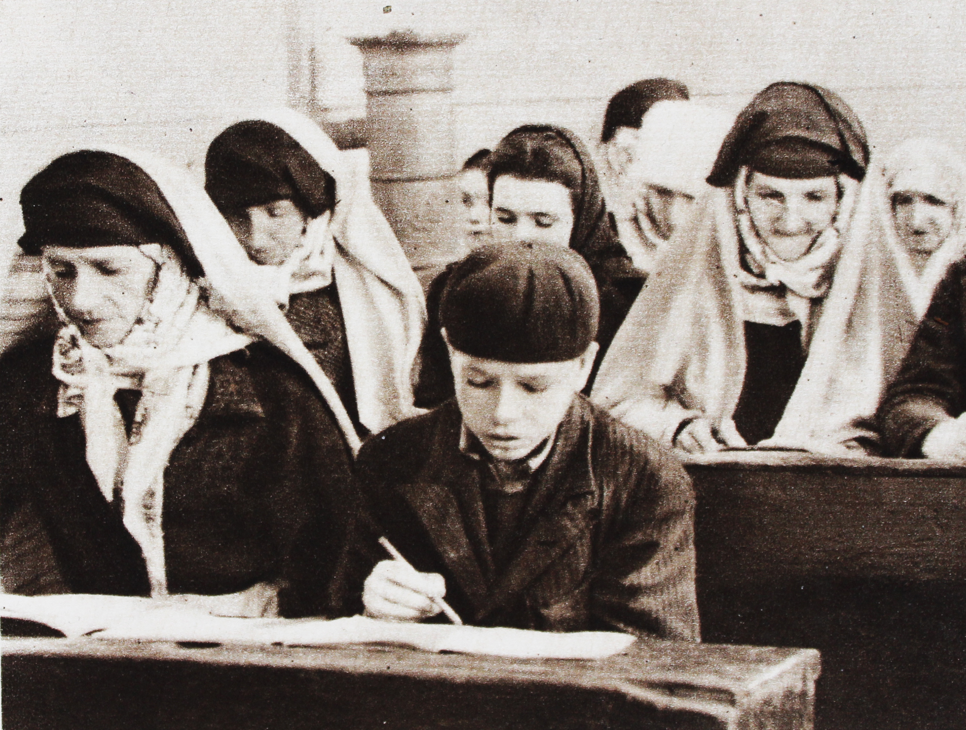 Bosnian women receiving elementary education in 1948. The majority of the women in the picture are Muslim, which was seen as a great success by the Women's Antifascist Front of Bosnia and Herzegovina.